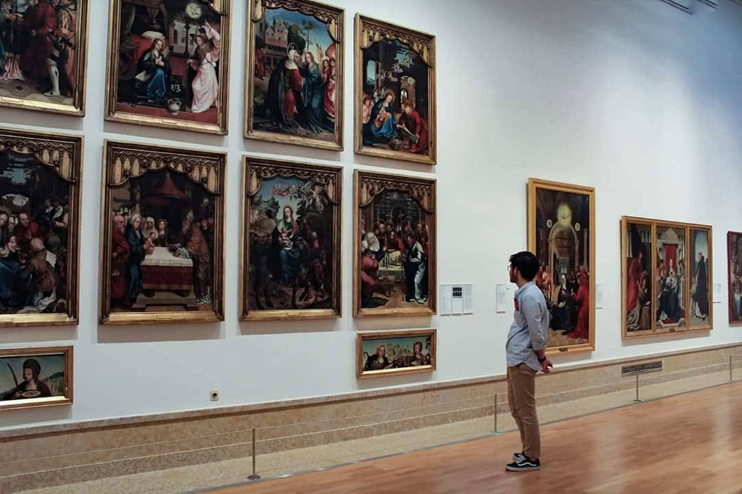 This file was uploaded for Wiki Loves Monuments in Portugal with the unique identifier 73649.